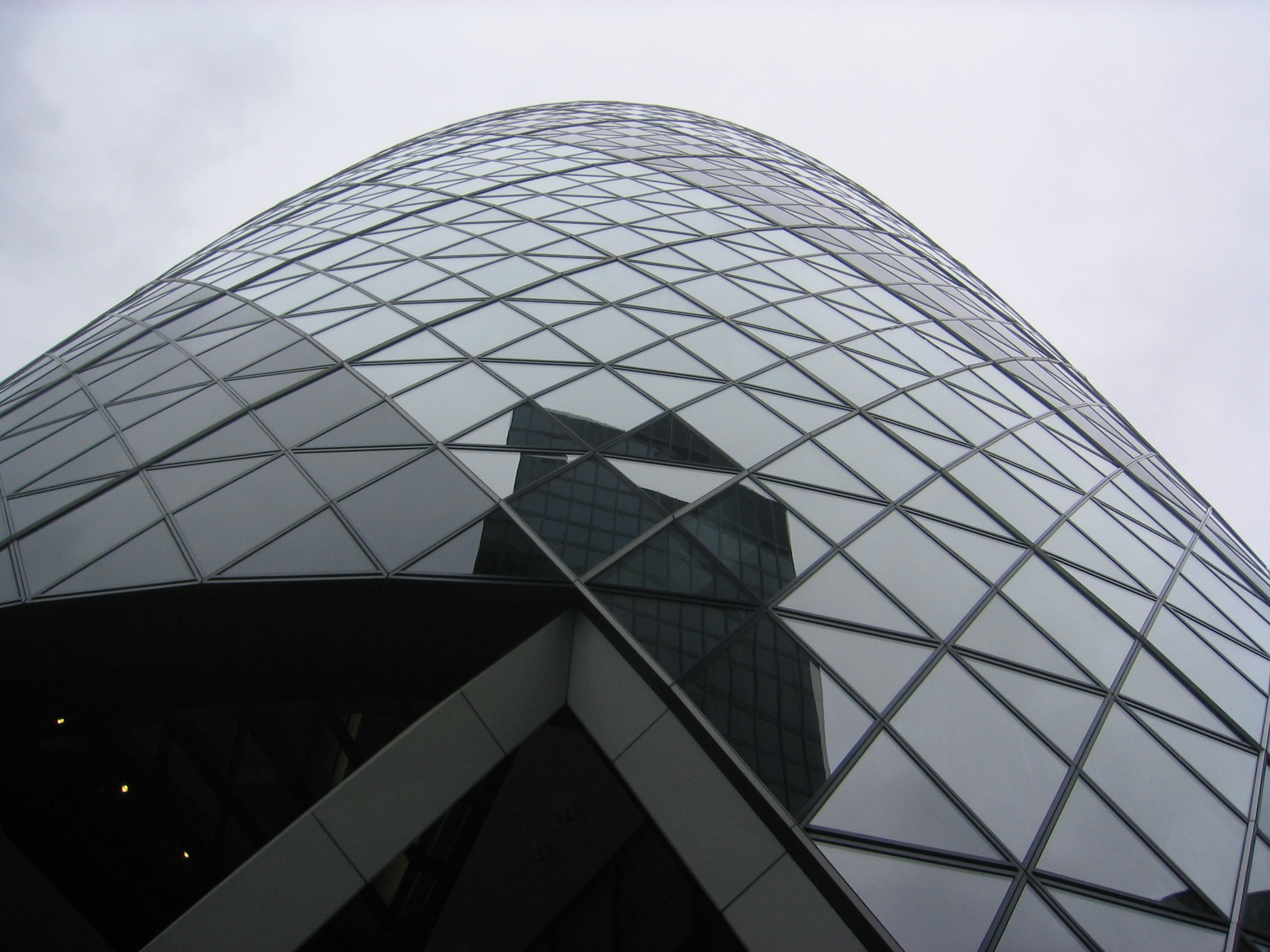 London